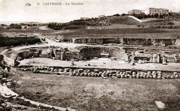 Théâtre, Carthage, Tunisie